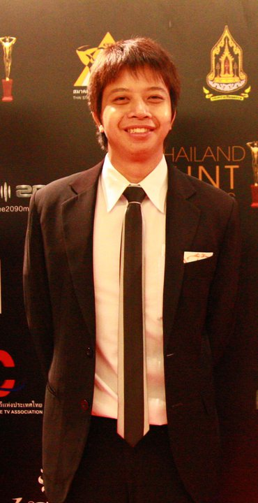 Nitchapoom in the press.